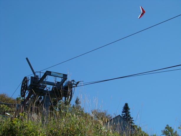 Hang Gliding above Burke Mountain